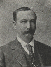 Former United States Representative from Iowa Walter I. Hayes.